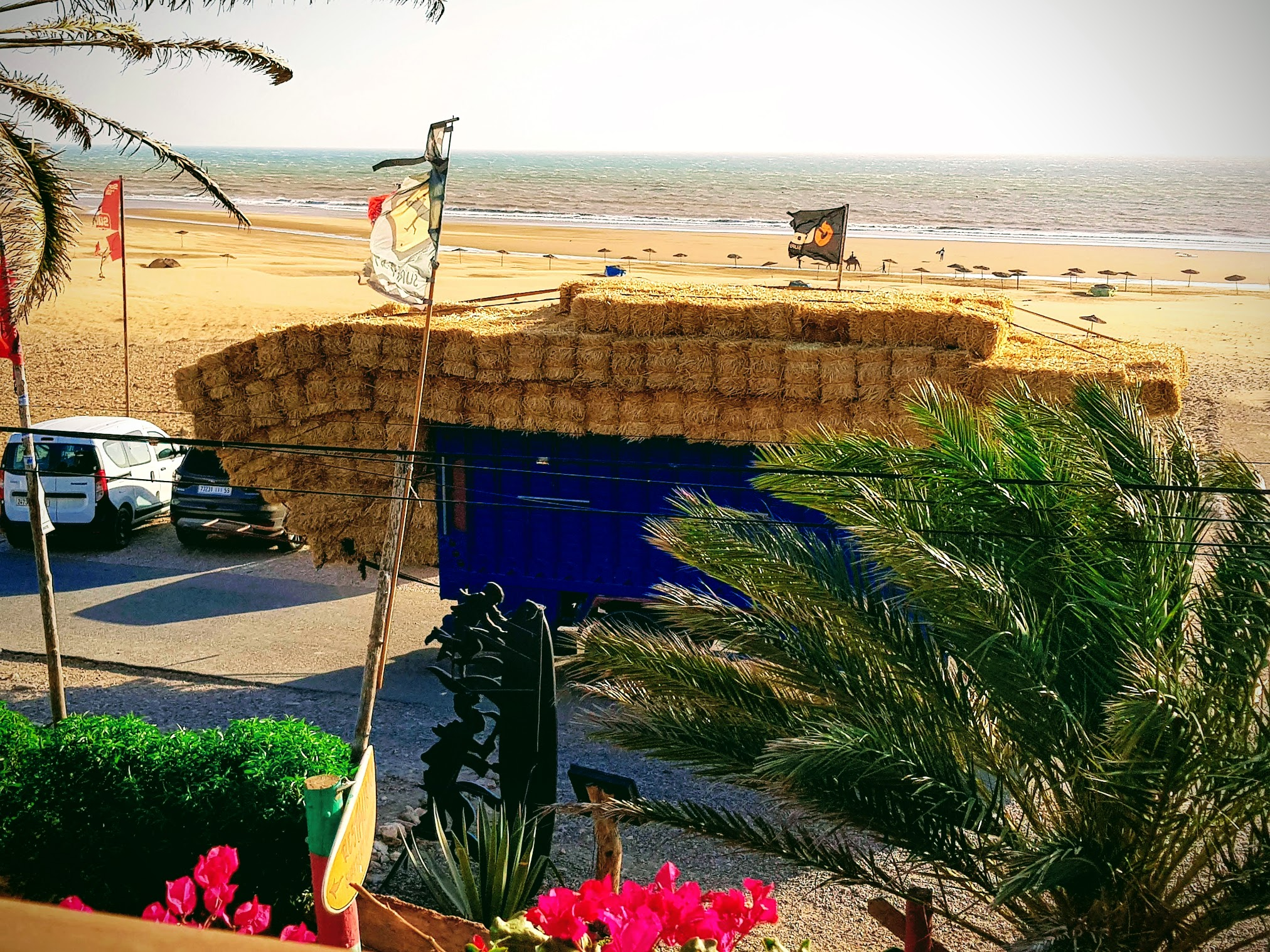 Animal food supplies being delivered along the little Atlantic coastal road in the tiny surfing village of Sidi Kaouki, near Essaouira. This is an image with the theme "Africa on the Move or Transport" from: Morocco